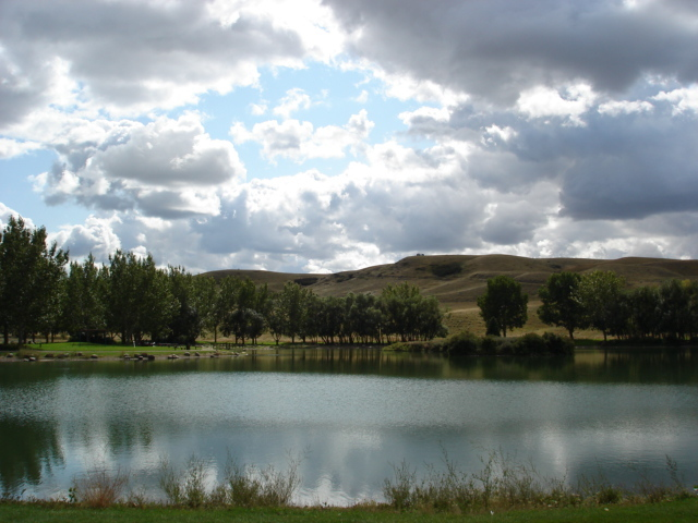 View of the cliffs at Echo Dale Regional Park in Medicine Hat, Alberta.